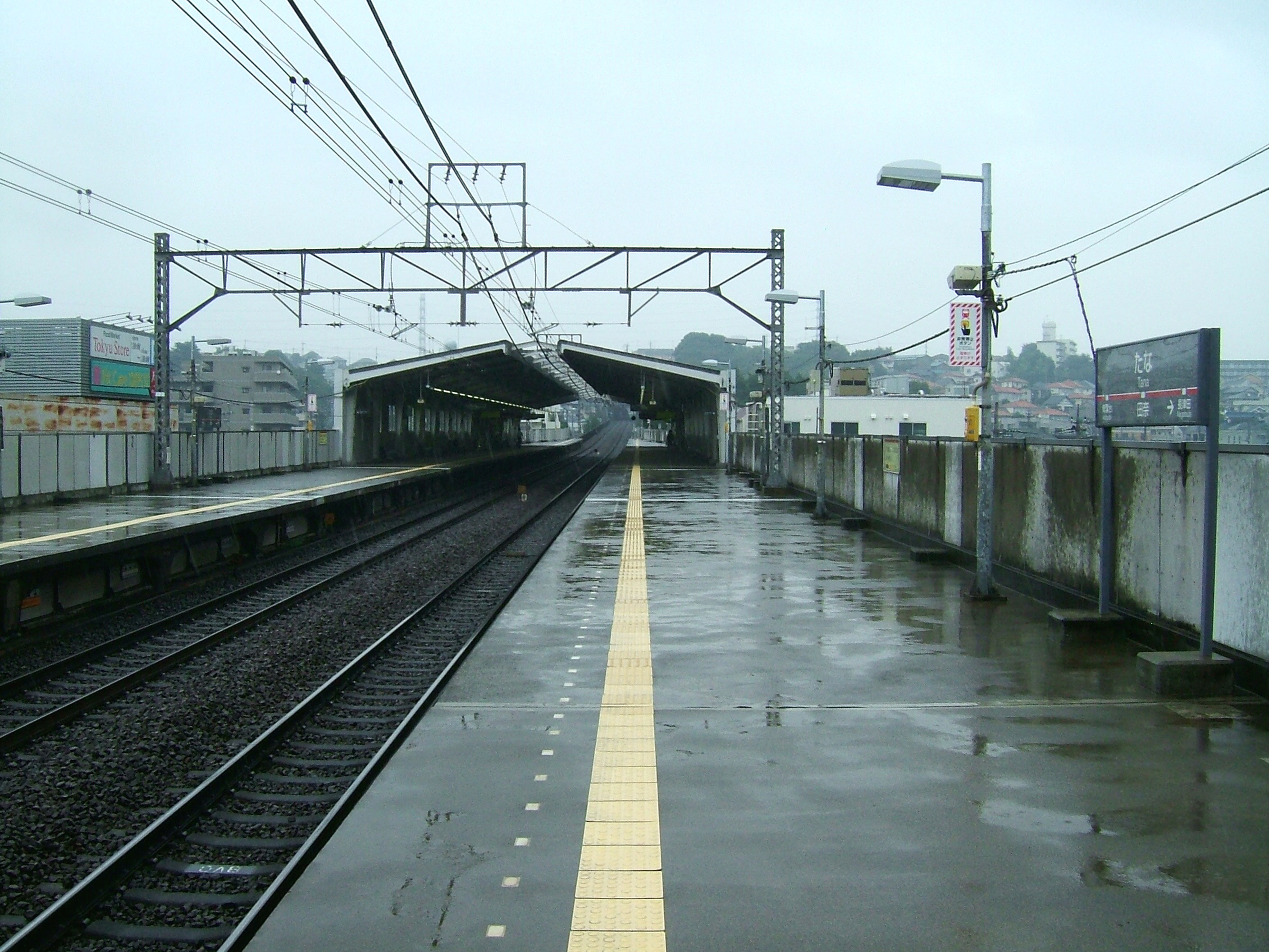 Tana Station platform (Tōkyū Den-en-toshi Line)